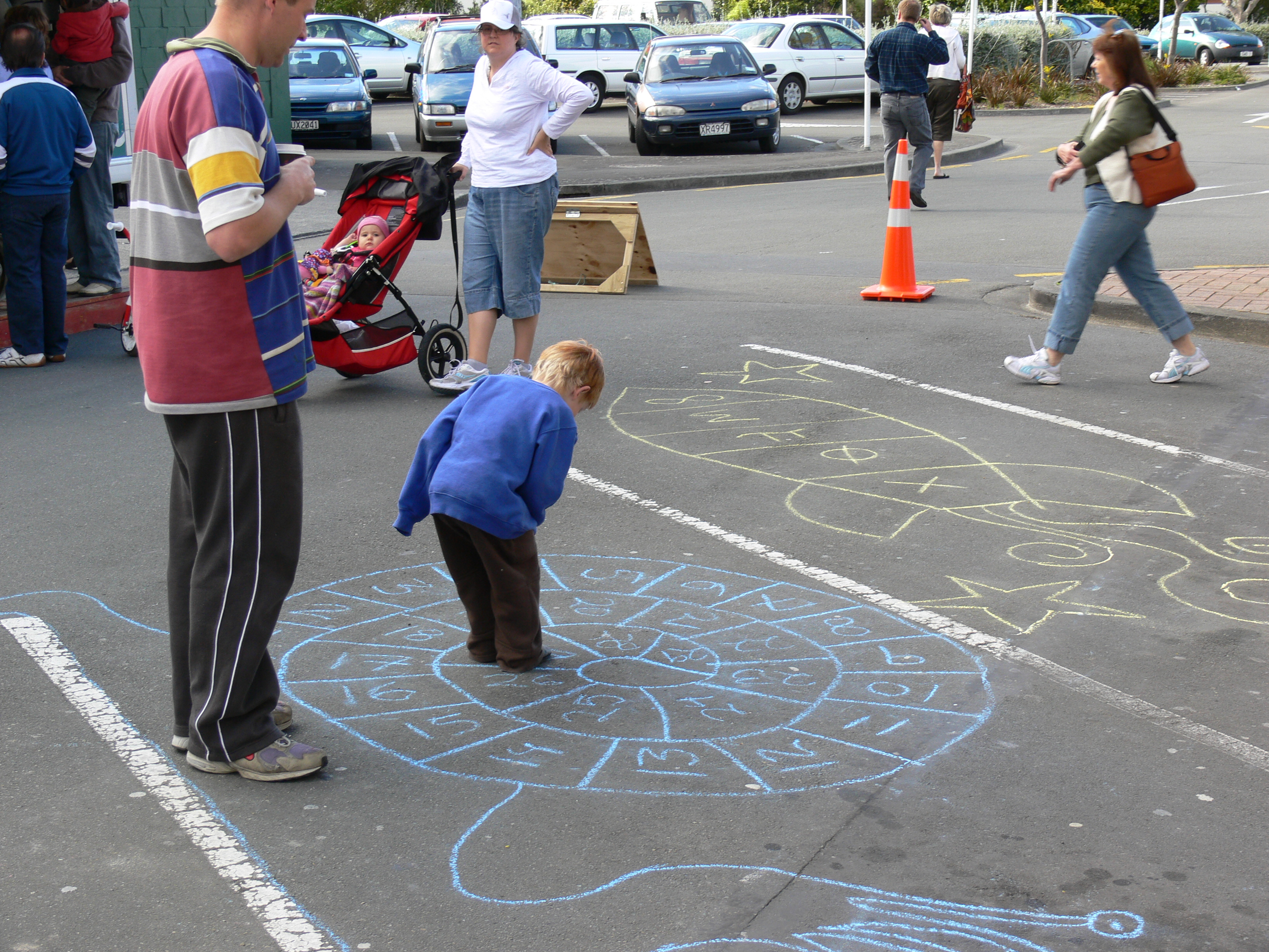 Escargot (snail shaped) hopschotch at Upper Hutt Farmers' Market in New Zealand.